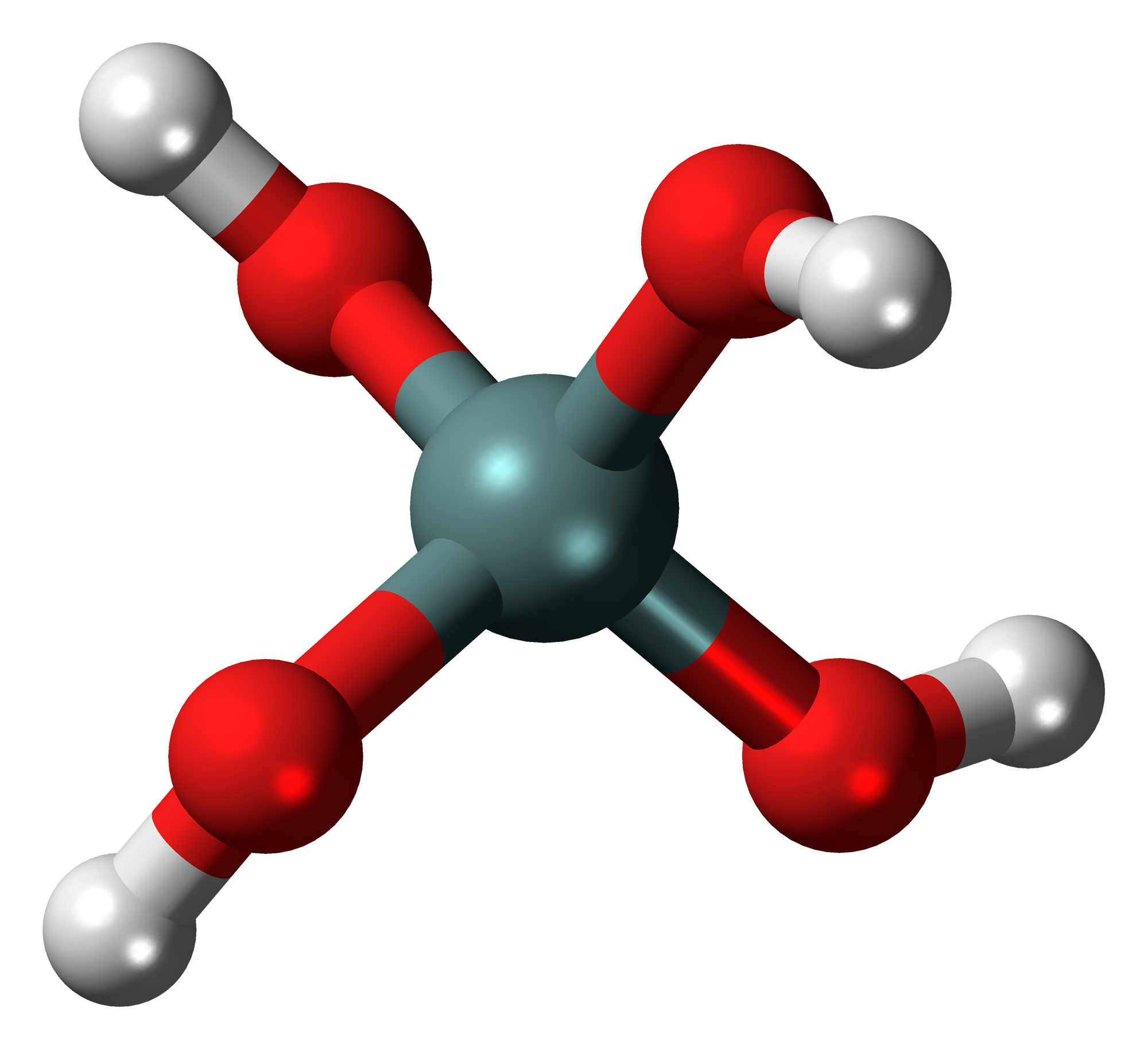 Ball-and-stick model of the orthosilicic acid molecule, the most common type of silicic acid. Colour code: Hydrogen, H: white Oxygen, O: red Silicon Si: blue-grey